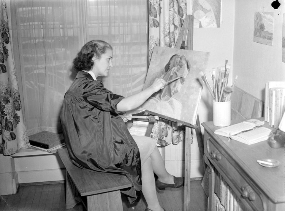 The artist Cécile Chabot painted brush portrait of a man. She is sitting at his easel in his residence Esplanade Avenue in Montreal.